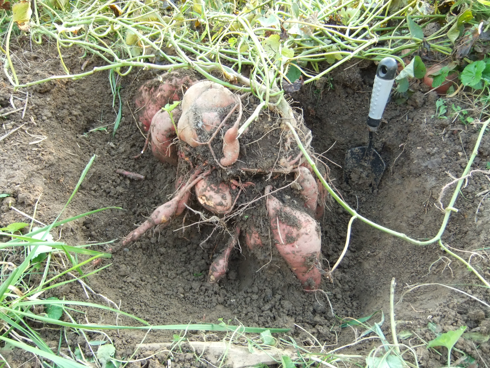 The partially exposed underground part of a sweet potato plant, during harvesting. Normally (i.e., before digging started) only the top half of the topmost (lighter-colored) tuber was seen above the soil surface.